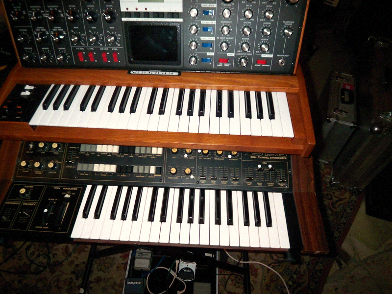 Moog Voyager YAMAHA CS-15D Dual Channel Synthesizer [1] The first Moog instruments were modular synthesizers. In 1971 Moog Music began production of the Minimoog Model D which was among the first widely available, portable and relatively affordable synthesizers. Unlike the modular synthesizer, the Minimoog was specifically designed as a self-contained musical instrument for keyboard players (besides the extremely user-friendly physical design, it also stayed in tune reasonably well) and was the first to really solidify the synthesizer's popular image as a "keyboard" instrument. The Minimoog became the most popular monophonic synthesizer of the 1970s, selling approximately 13,000 units between 1971 and 1982. Another widely used and extremely popular Moog synthesizer was the Taurus bass pedal synthesizer. Released in 1975, its pedals were similar in design to organ pedals and triggered synthetic bass sounds. The Taurus was known for a "fat" bass sound and was used by the bands Genesis, Rush, Electric Light Orchestra, Yes, Pink Floyd and many others. Production of the original was discontinued in 1981, when it was replaced by the Taurus II. Moog Music was the first company to commercially release a keytar, the Moog Liberation. -wikipedia